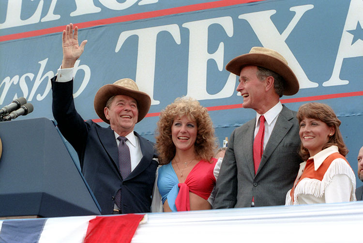 7/25/1984 President Reagan and Vice President Bush at a rally at Auditorium Shores in Austin Texas